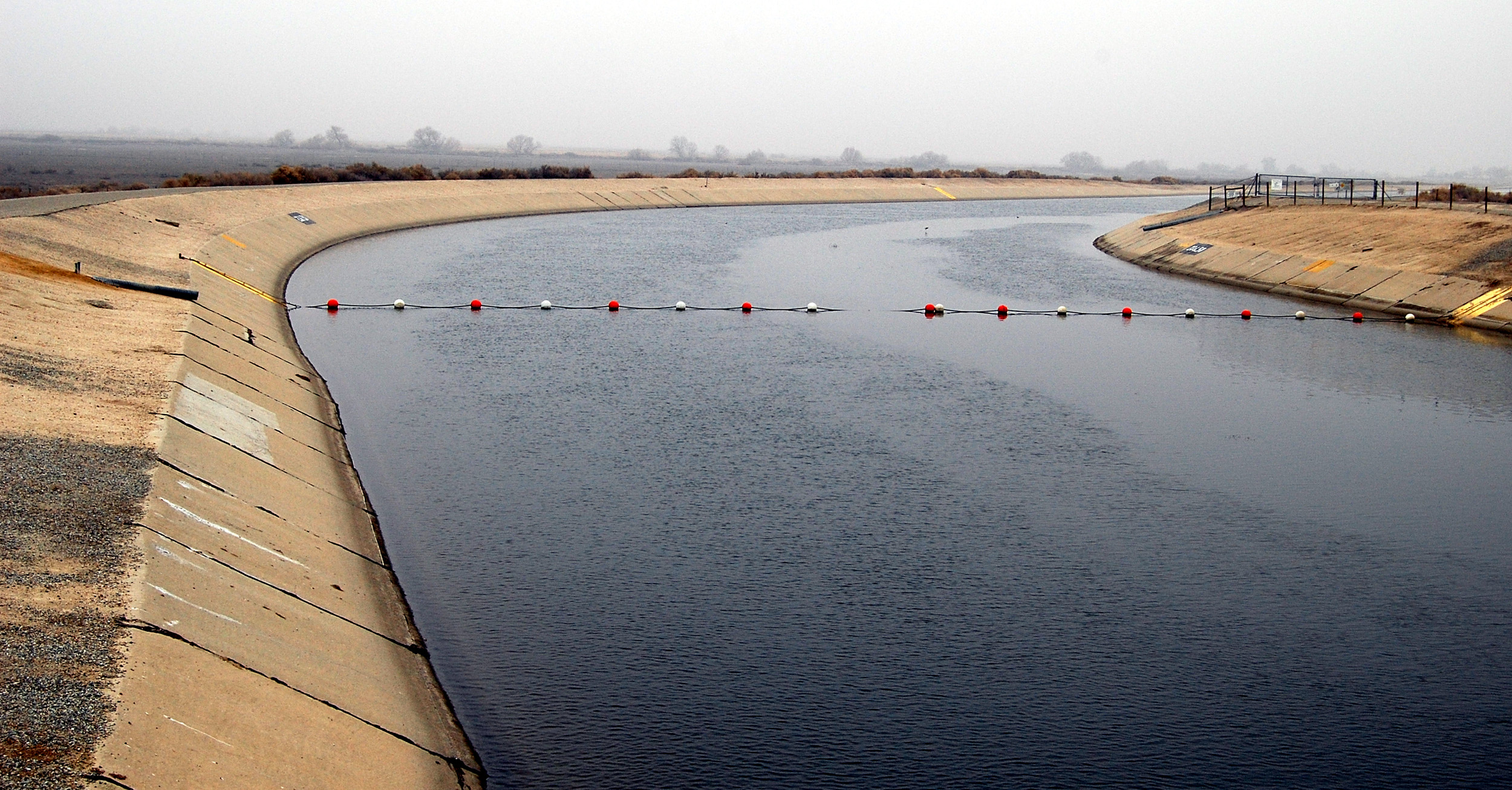 California Aqueduct near Tupman, California Fog is normal for winter in this area. About this image: Was captured using film or digital camera equipment. May lack artistic merit but documents the existence of the subject(s). May have had elements including colors, composition, gamma, exposure, or size adjusted using camera-, lens-, scanner-settings or by applying image editing software. May have had aberrations, flare, or reflections removed in order that the subject of the image is more clearly visible. Is intended to be representative of the view of the subject that would be perceived by a human eye.